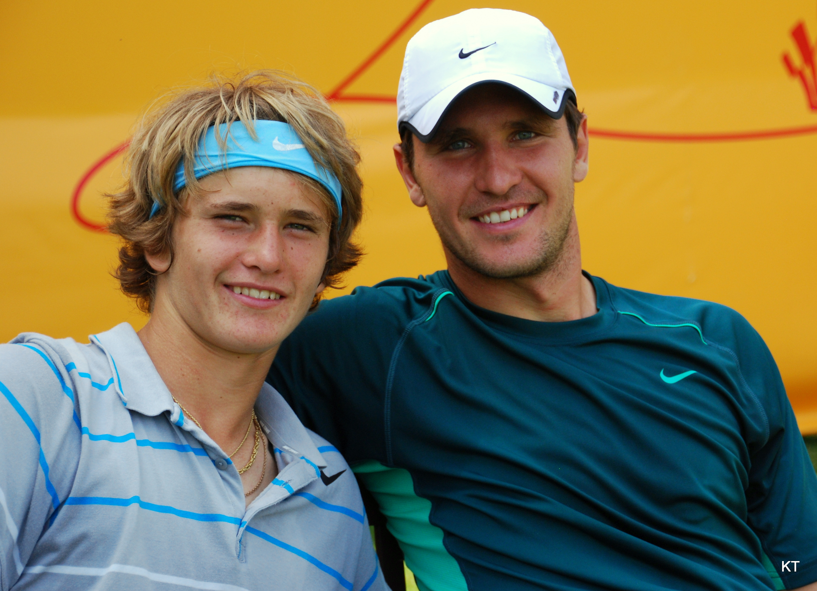 The Boodles, Stoke Park, 2013.